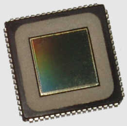 Biometric fingerprintsensor, area beased, chip from company Authentec (USA)